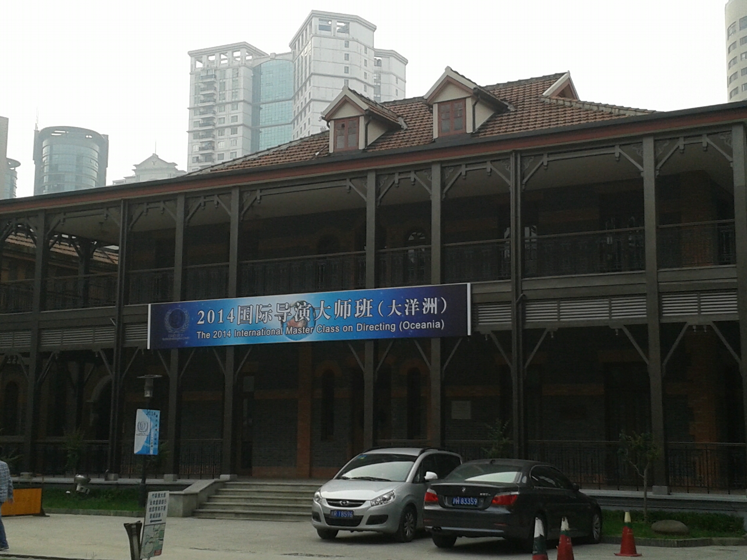 上海戏剧学院熊佛西楼